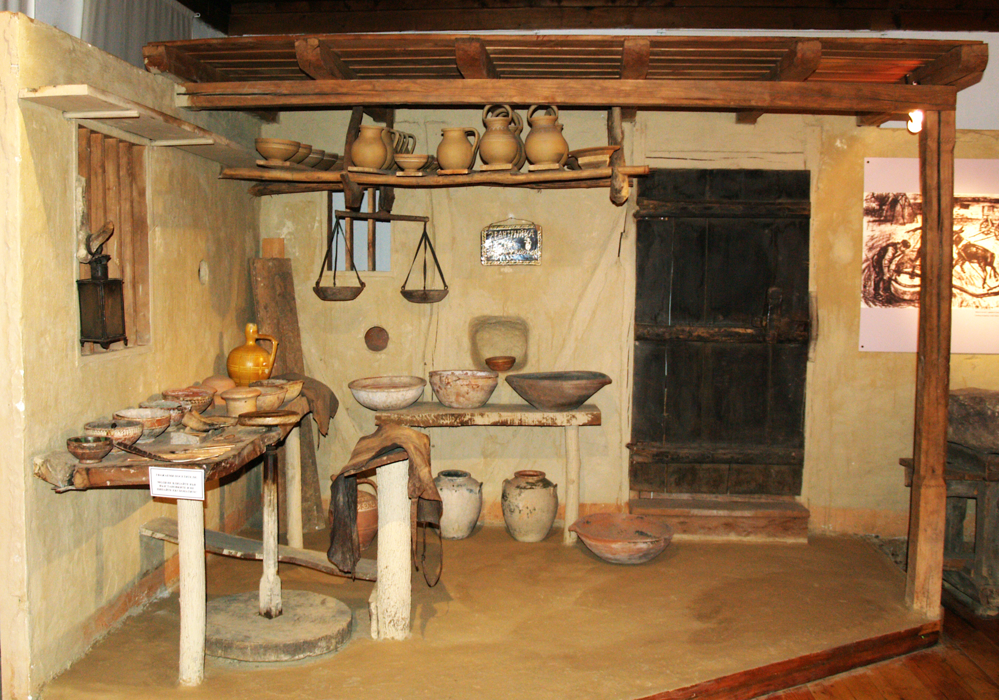 Traditional Pottery workshop reconstruction in the Museum of traditional crafts and applied arts, Troyan, Bulgaria